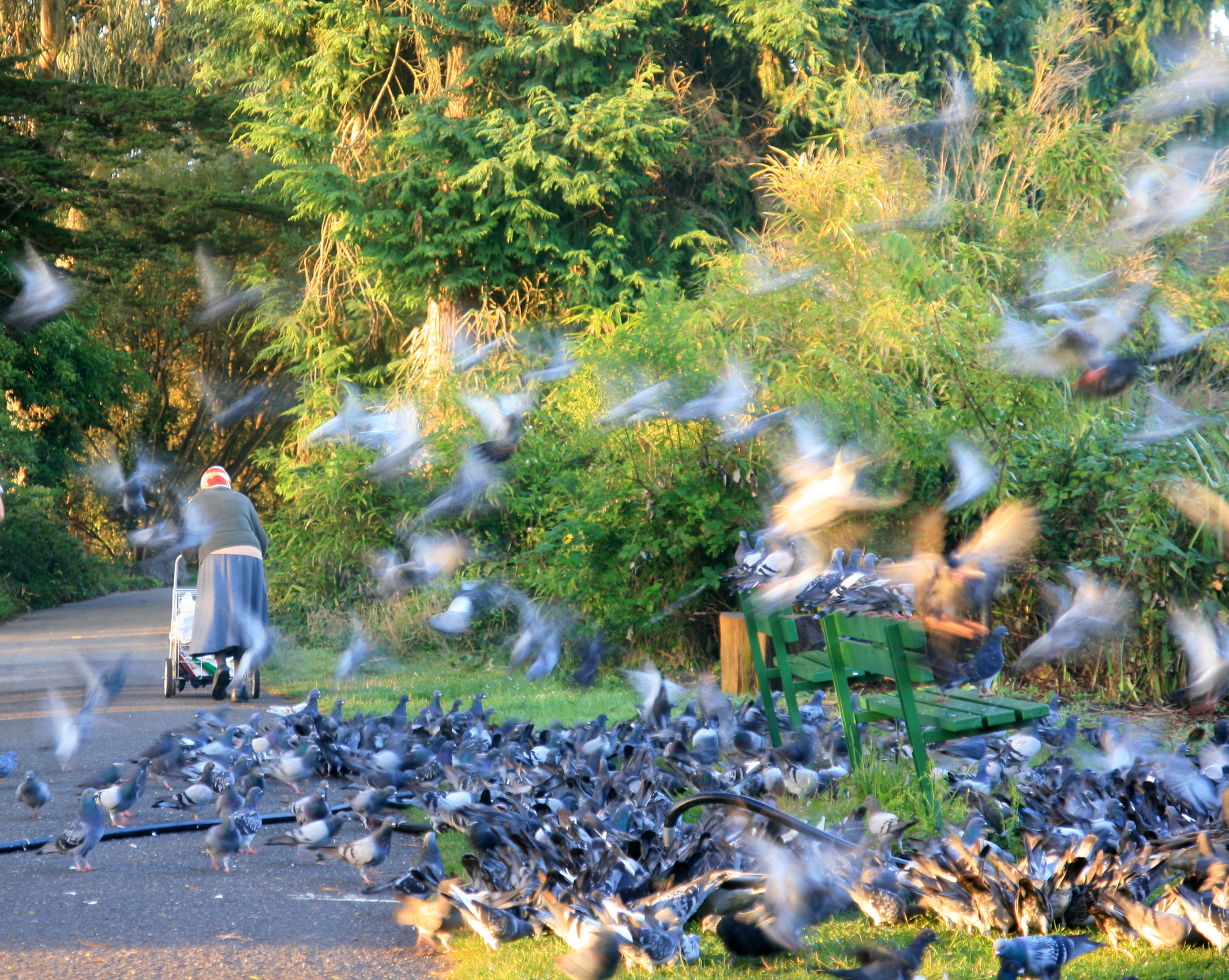 Elderly woman is leaving after she finished feeding pigeons